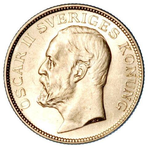 1 kr, a Swedish coin. *Scan by my brother, from his collection.